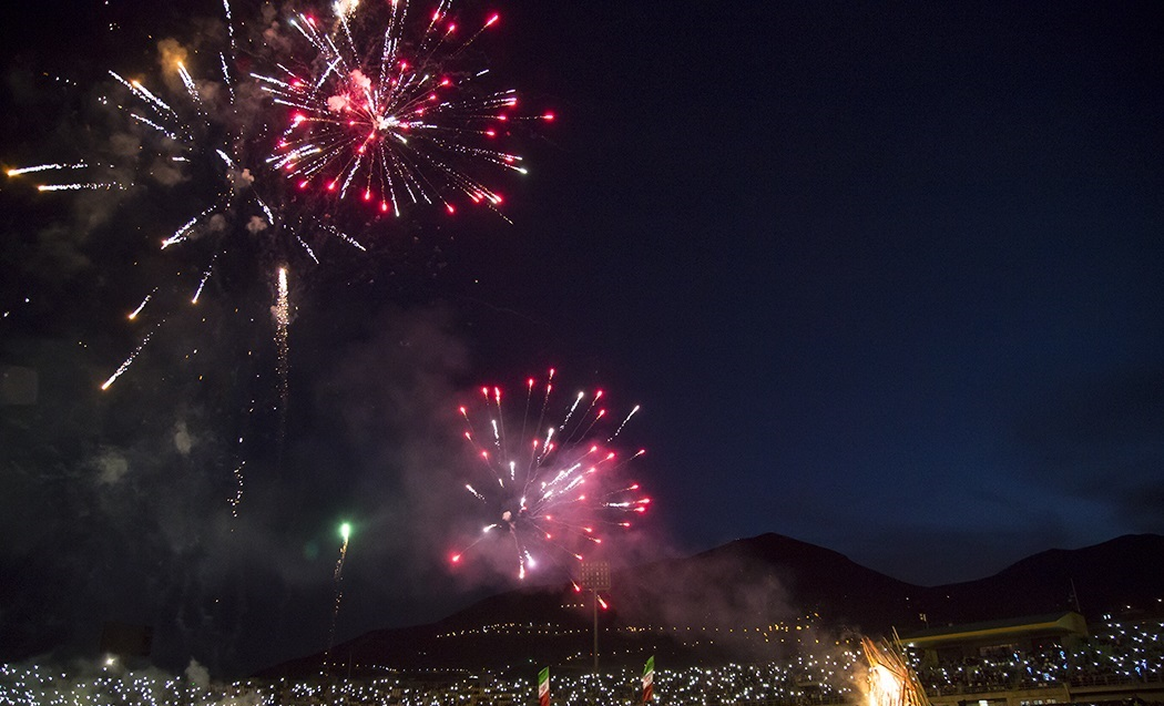 New Year celebration in Sanandaj. see full gallery